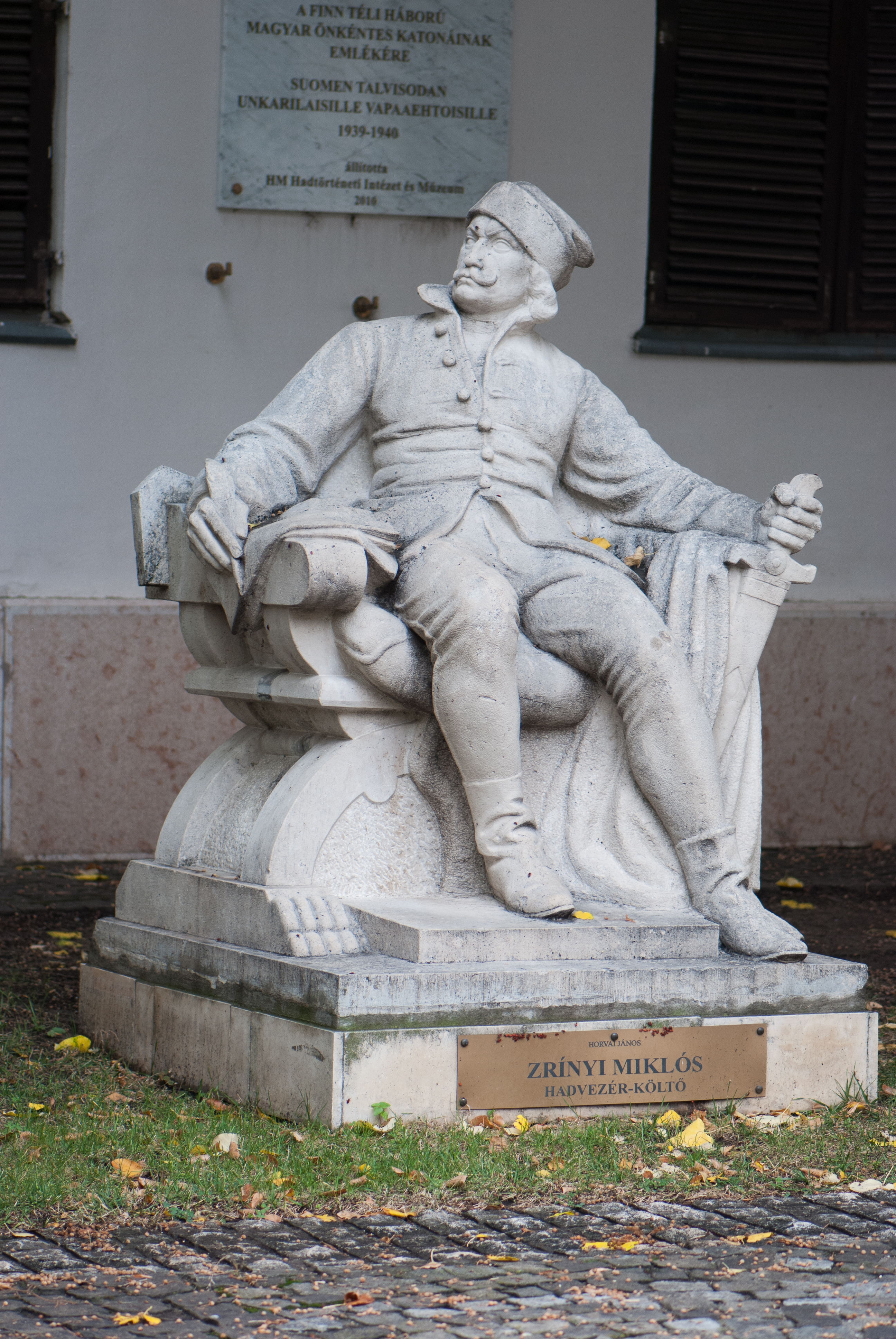 Budapest 2012